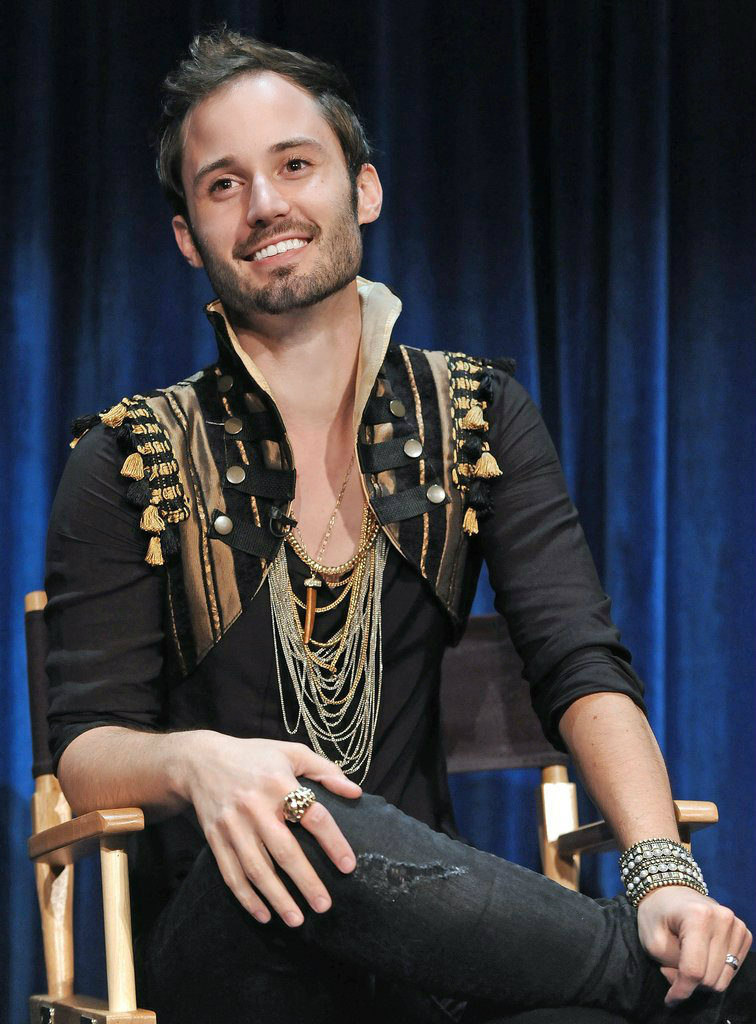 Brad Bell. He is best known as co-creator and showrunner of the acclaimed sitcom Husbands, in which he also stars.